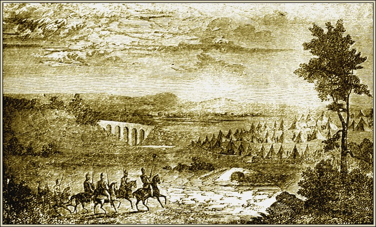 Gaius Claudius Nero (cos. 207) gives the head of Hasdrubal to Hannibal.